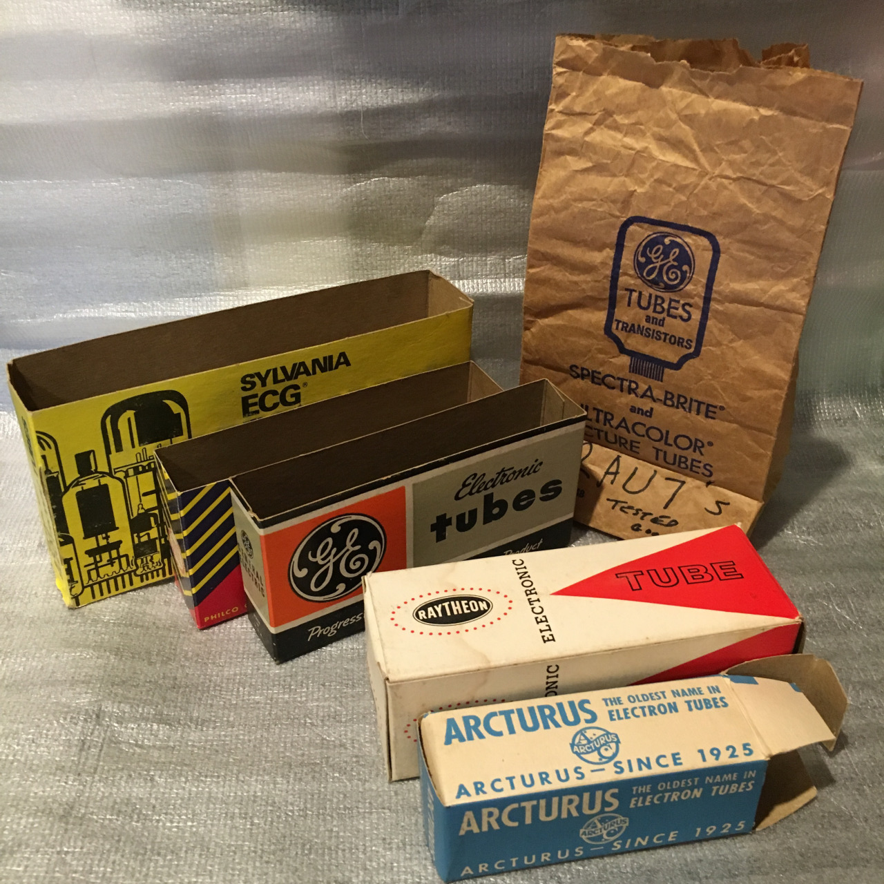 Array of commercial packaging for vacuum tubes, in the front are boxes for individual tubes, on the left are cardboard sleeves for holding rows of boxes together, and on the right is a paper bag that smaller individual tubes would be placed in after being bought.